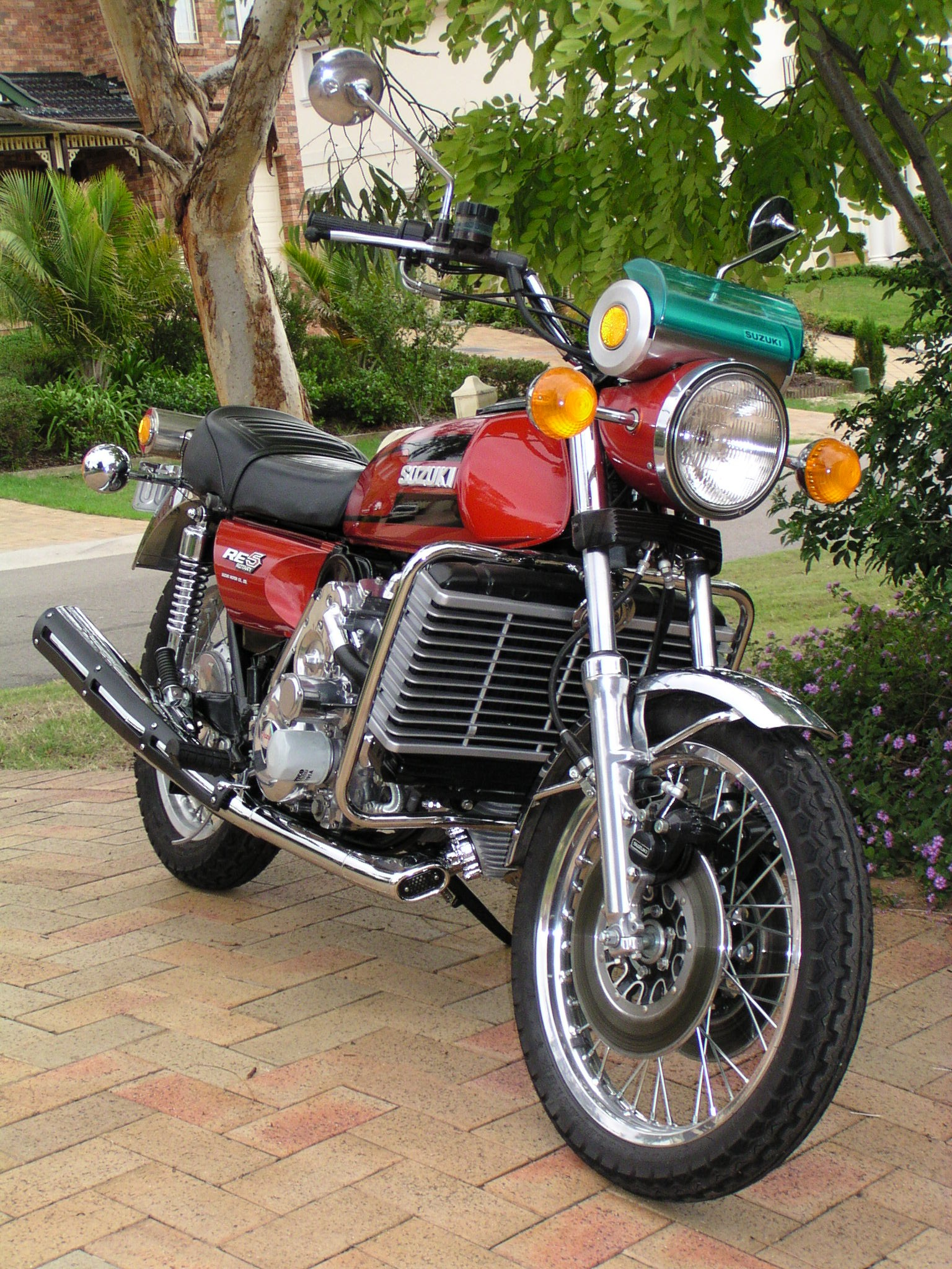 Suzuki Motorcycle company 1975 RE5 rotary engine cycle